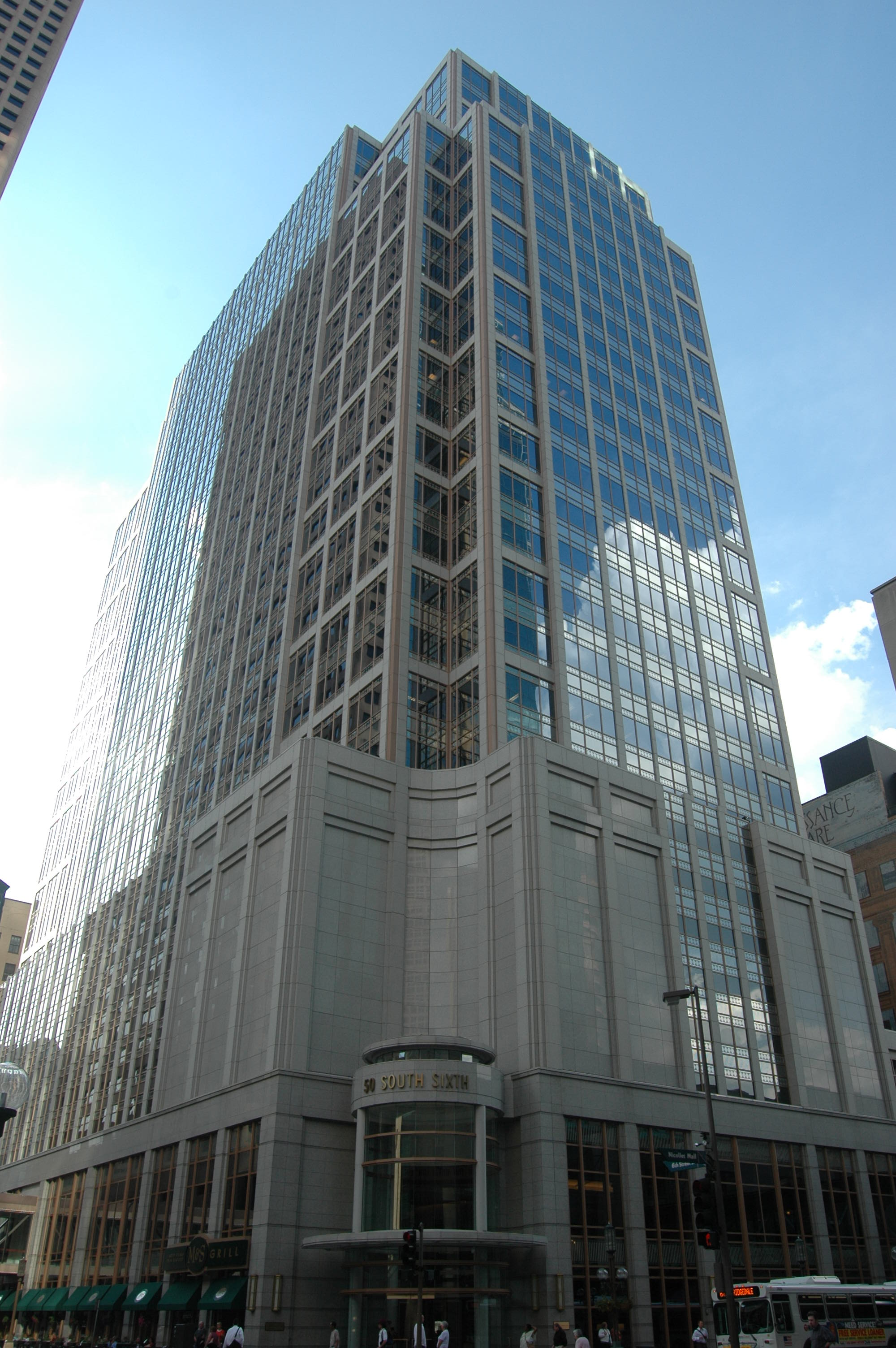 50 6th St, Minneapolis, Minnesota